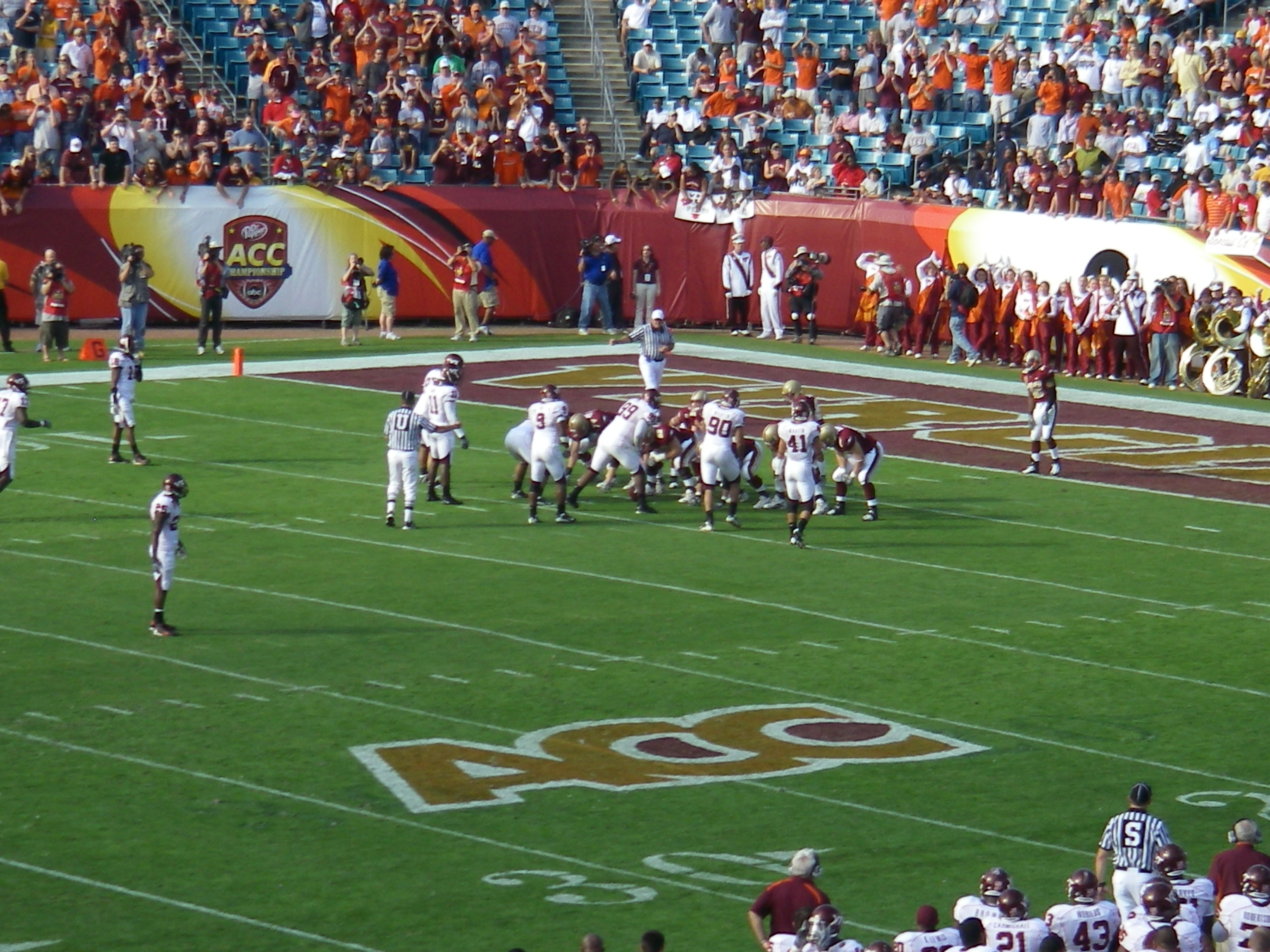 Matt Ryan and the Boston College offense are backed up deep in their own territory at the end of the first half of the 2007 ACC Championship Game.